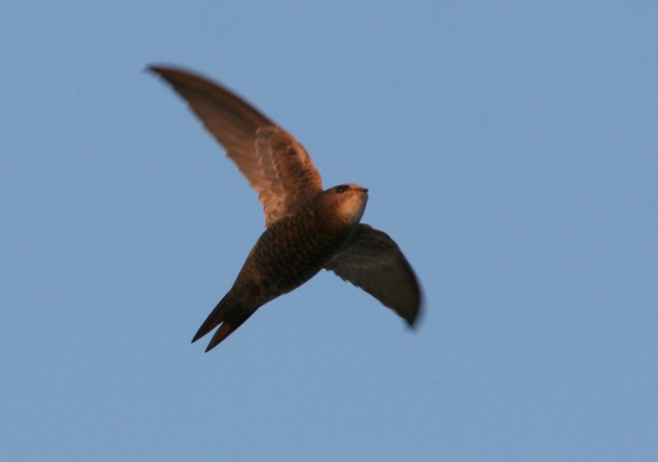 Pallid Swift, Apus pallidus, in flight over Tarifa, Spain